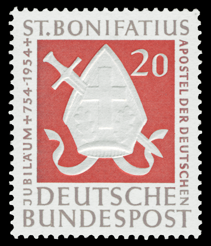 For the 1200th day of death of Saint Boniface (672/675-754/755) Graphics by Göhlert Ausgabepreis: 20 Pfennig First Day of Issue / Erstausgabetag: 5. Juni 1953 Michel-Katalog-Nr: 199